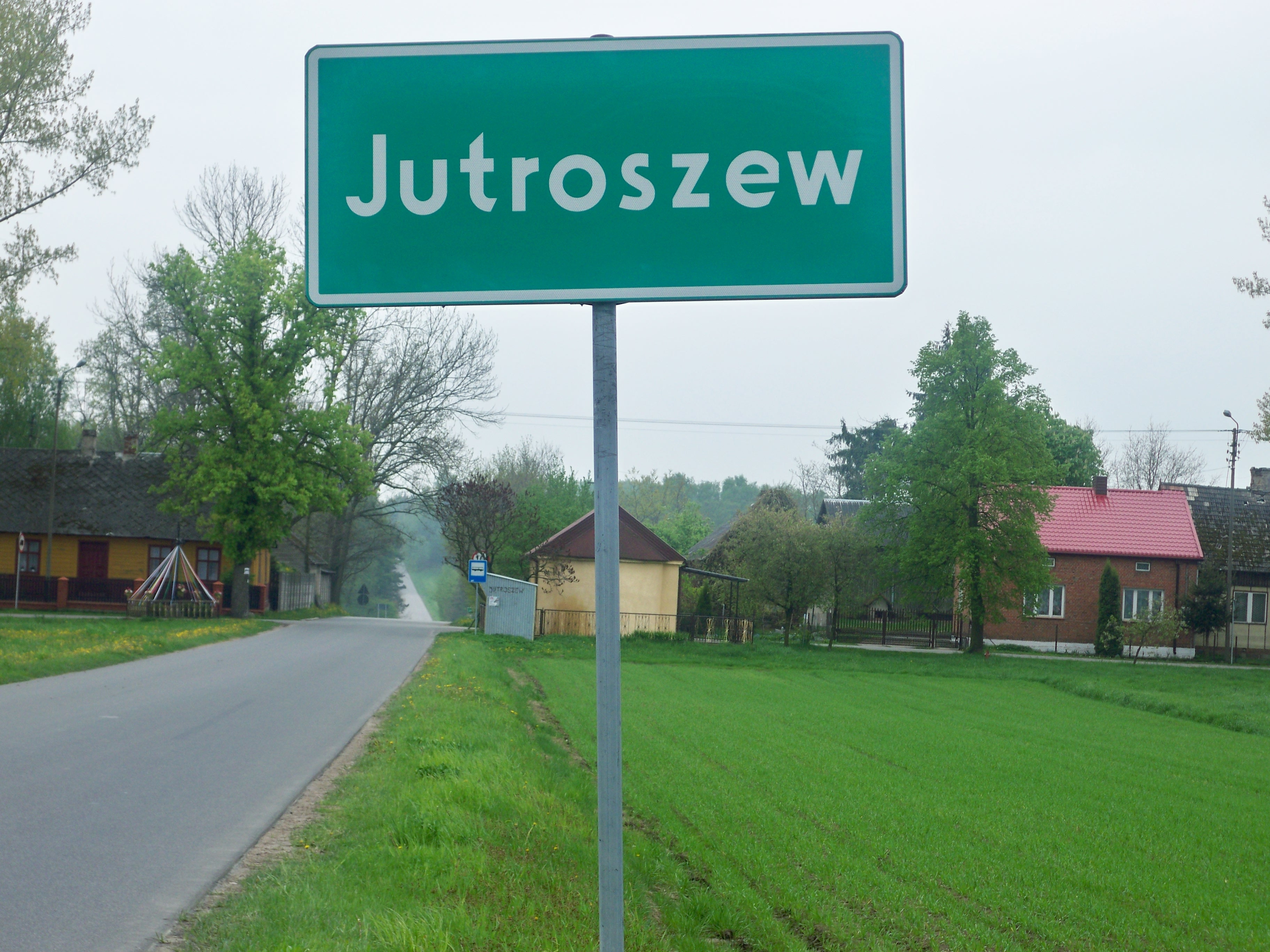 My photo